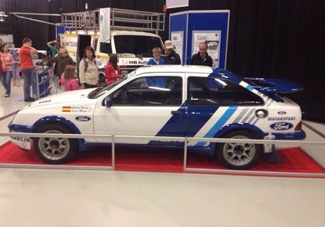 Carlos Sainz Ford Sierra RS Cosworth Rally